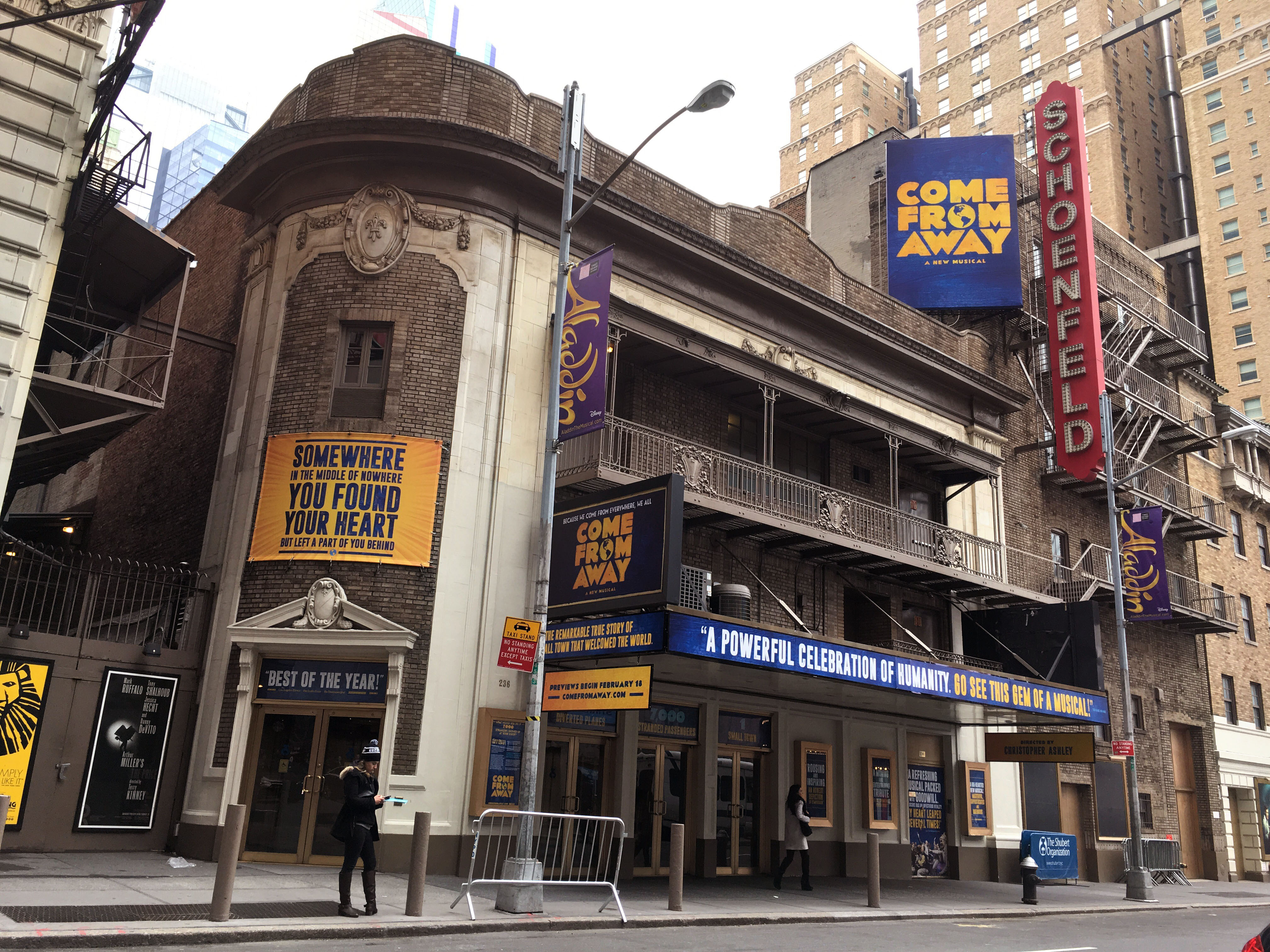 Come From Away on Broadway, January 22, 2017